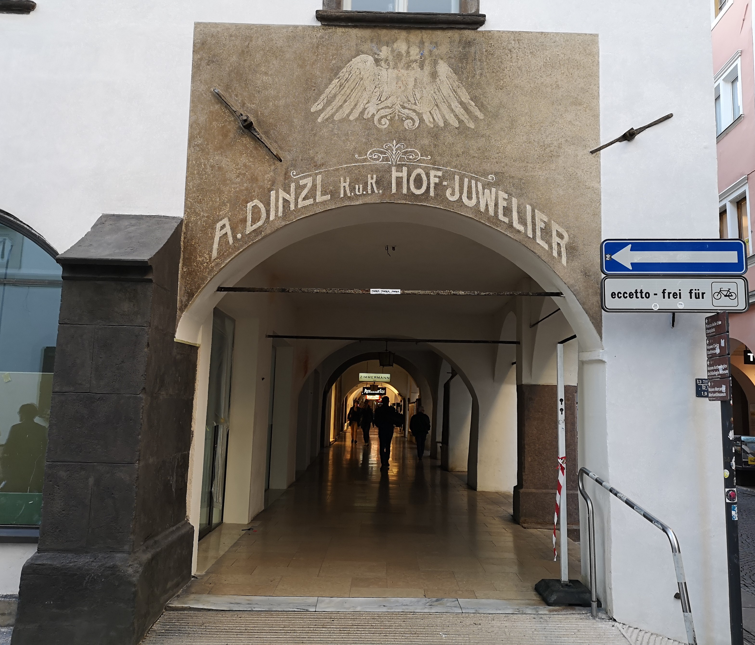 The Waaghaus arcade in Bozen-Bolzano 2019